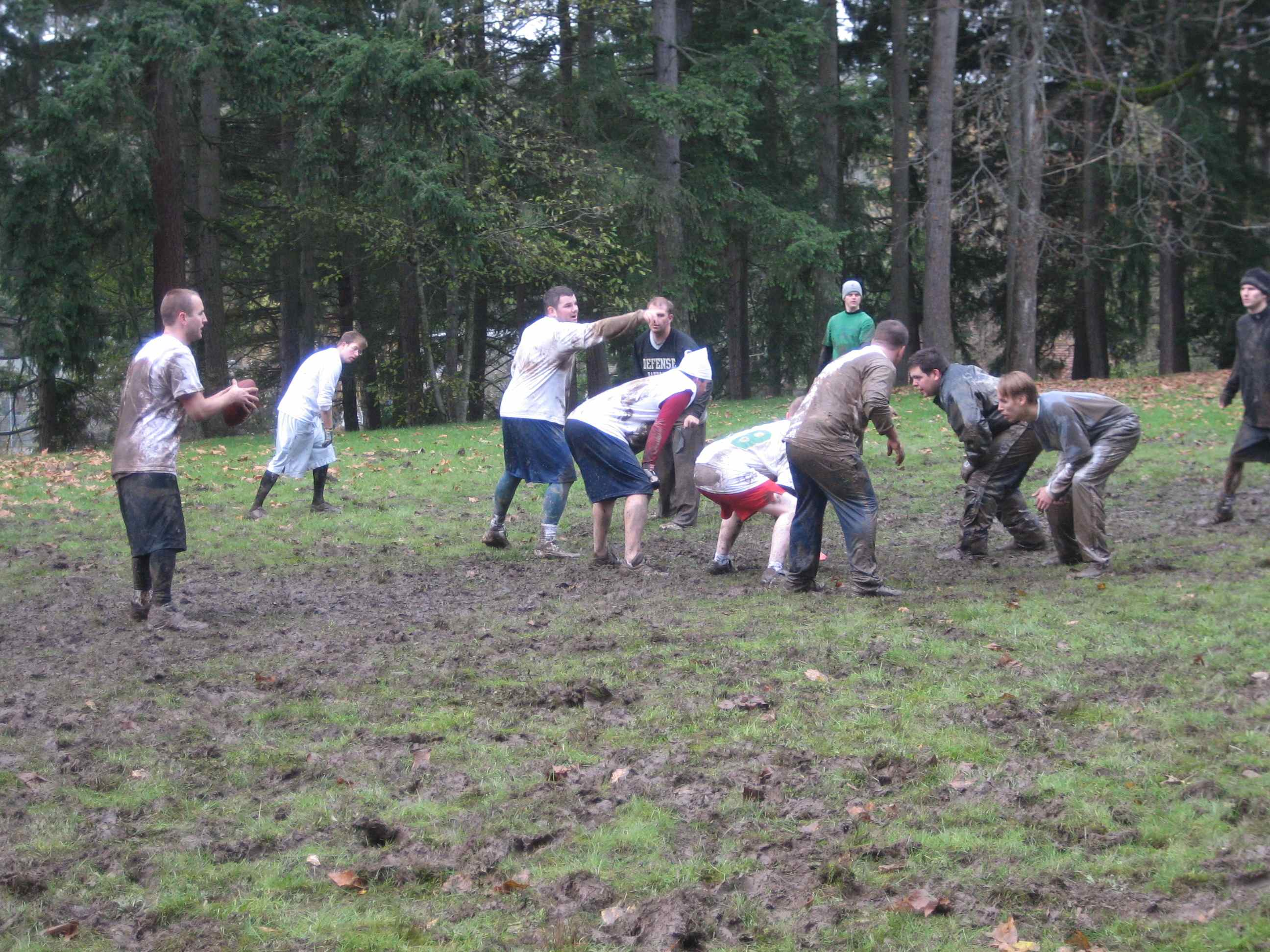 8th Annual Redmond Turkey Bowl 2006